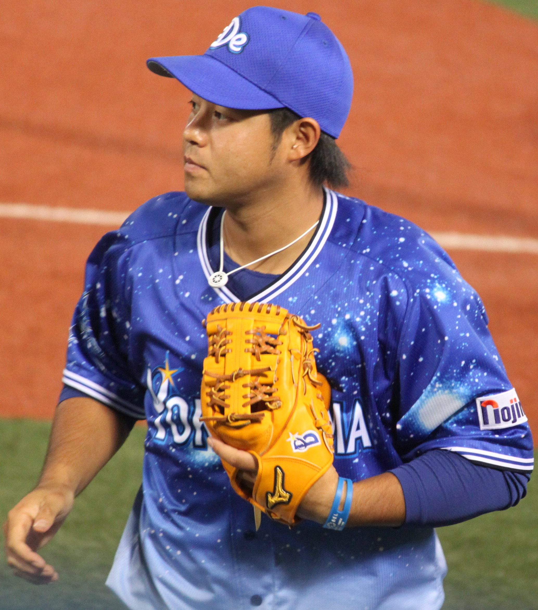 Toshiro Miyazaki, infielder of the Yokohama DeNA BayStars, at Yokohama Stadium.